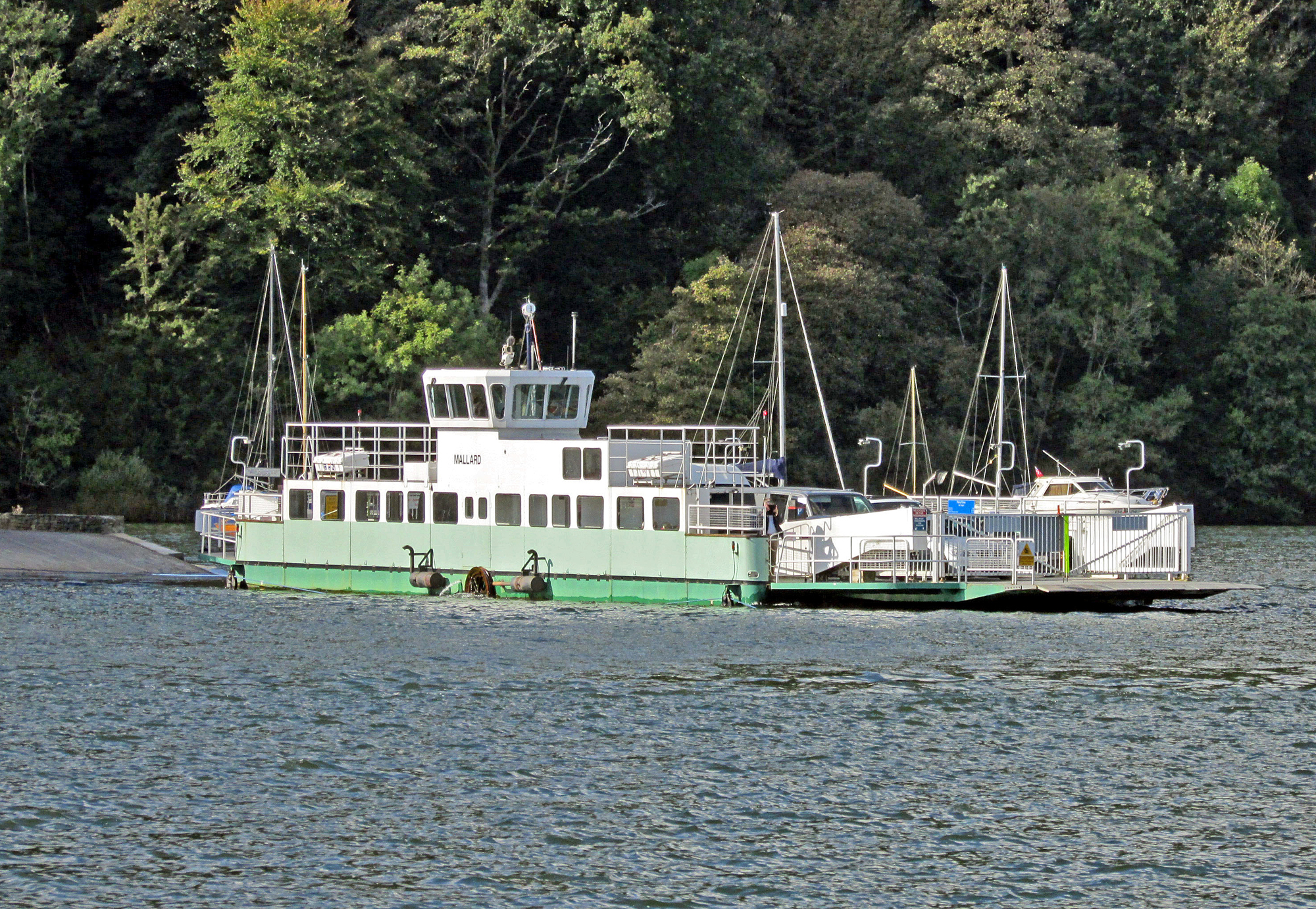 Windermere Car Ferry "Mallard" leaving the ramp at Far Sawrey in October 2016